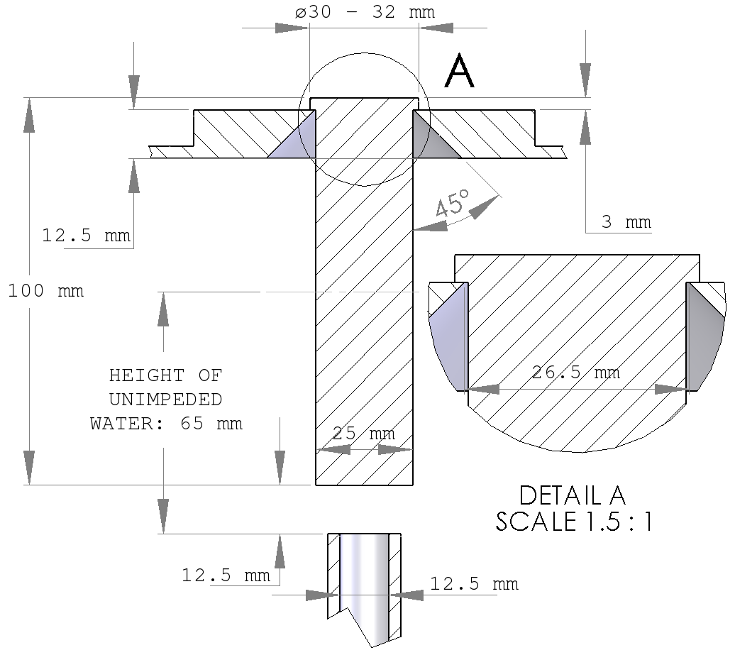 Metric measurements for standard hardenability (jominy) test.